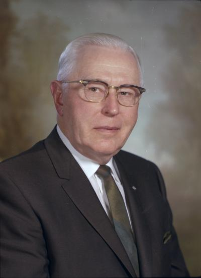 Representative Alfred O. Adams